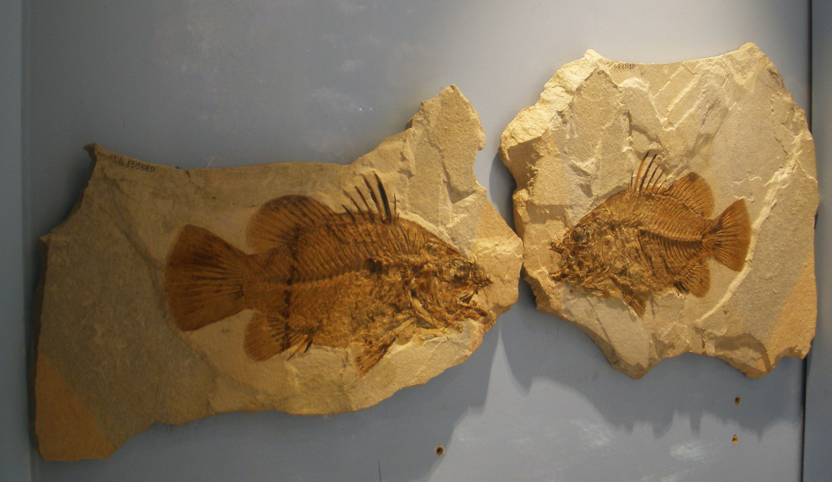 Fossil of Eolates gracilis, an extinct fish